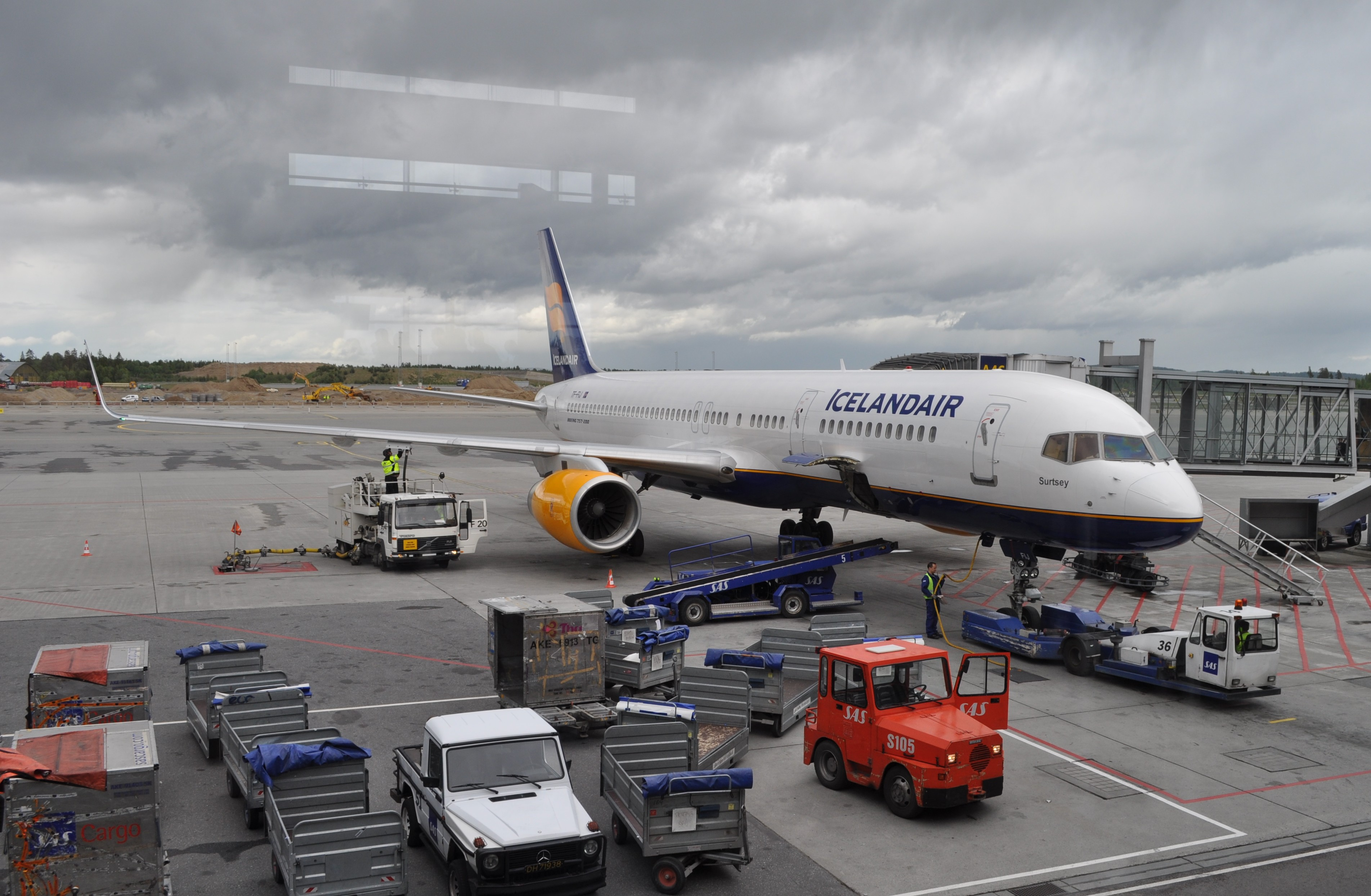 Icelandair's Surtsey at Gardermoen (OSL) May 24 2011.